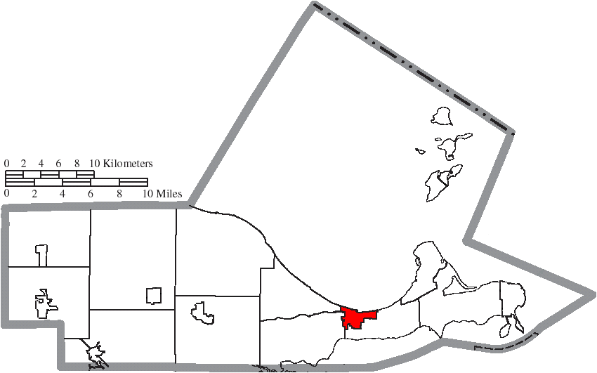 Map of the municipal and township boundaries of Ottawa County, Ohio, United States, as of the 2000 census, with the location of the city of Port Clinton highlighted. Township borders are shown only in unincorporated areas in order to differentiate incorporated and unincorporated areas more clearly.